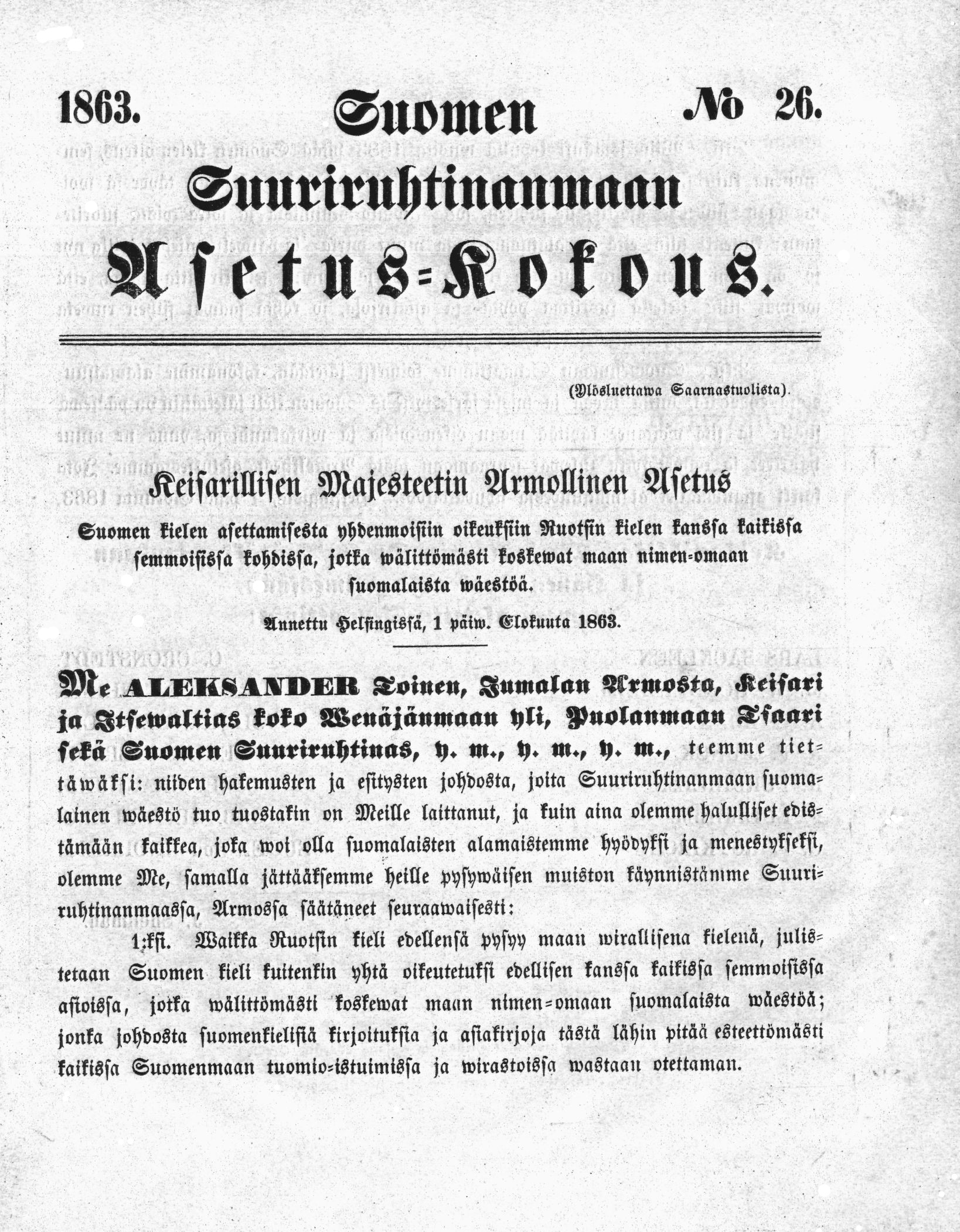 First page of the so-called Language Decree of 1863 which gave equal rights to the Finnish language in the Grand Duchy of Finland.